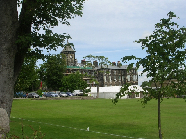 Ashville College - Yew Tree Lane